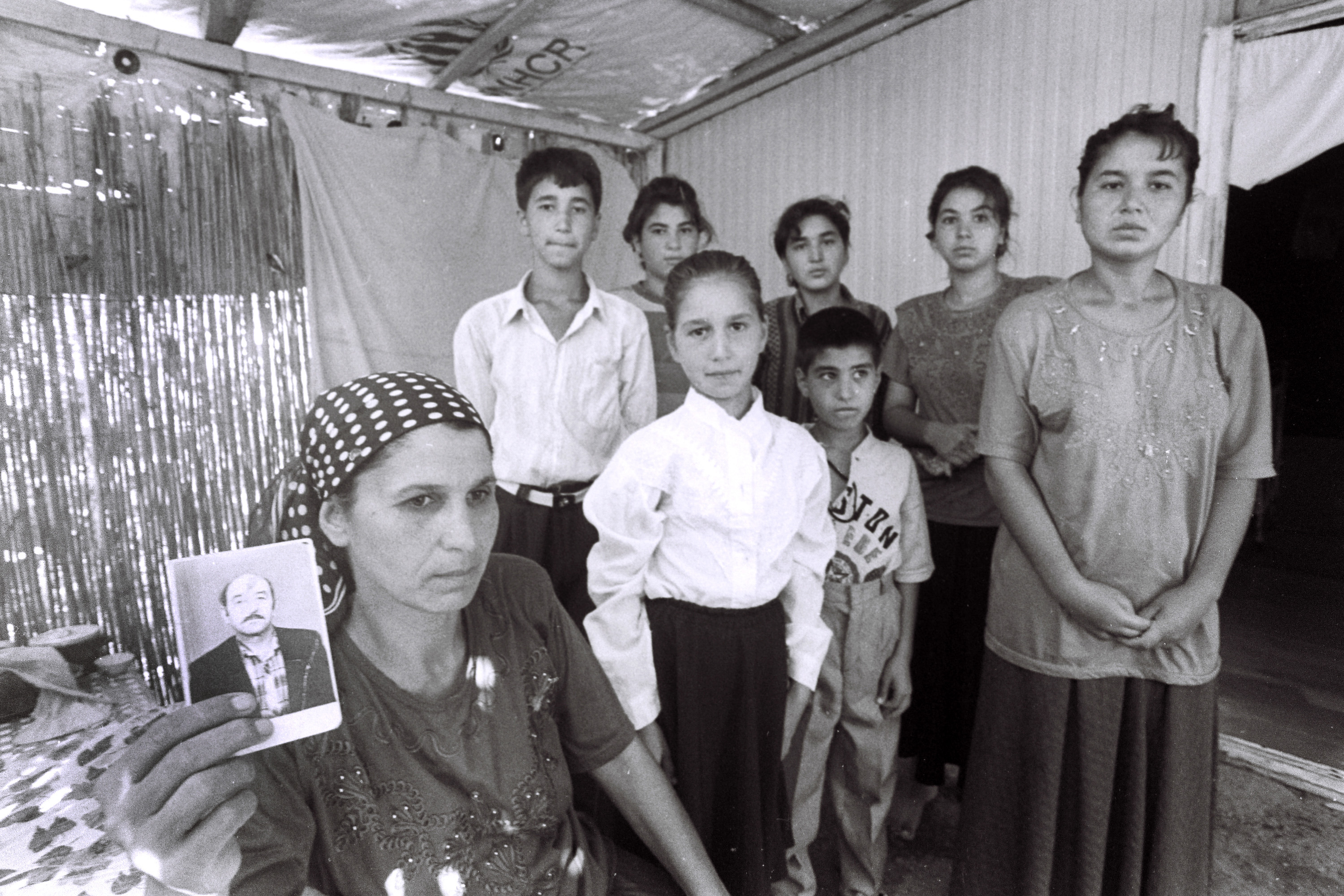 Azerbaijani refugees from Karabakh. Refugee camp in Agjabedi Rayon.